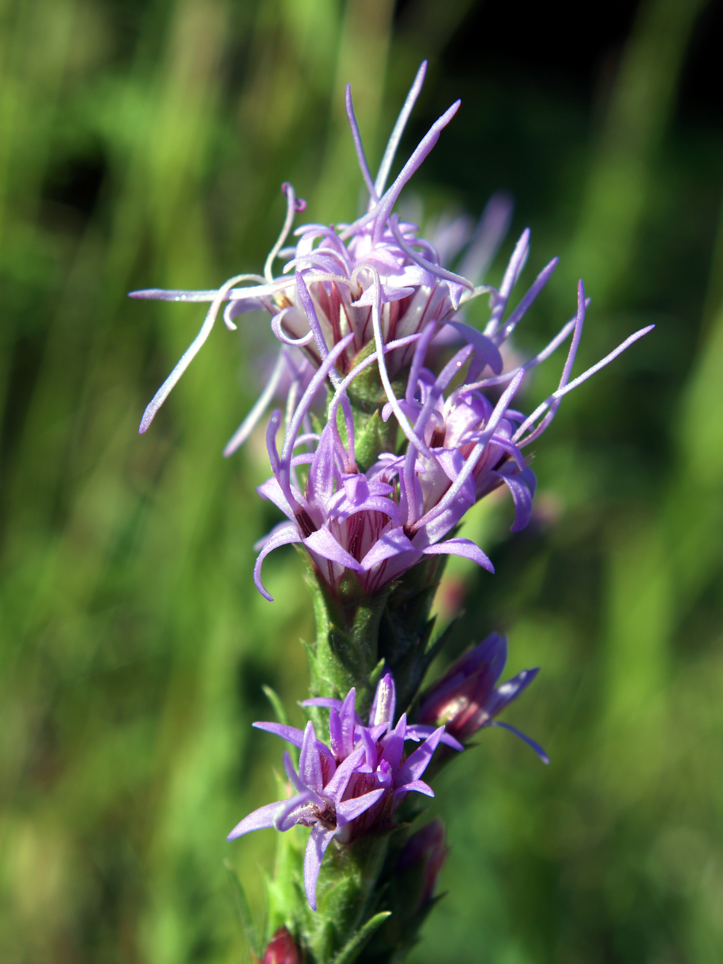 Liatris punctata at Wind Cave National Park, South Dakota, USA